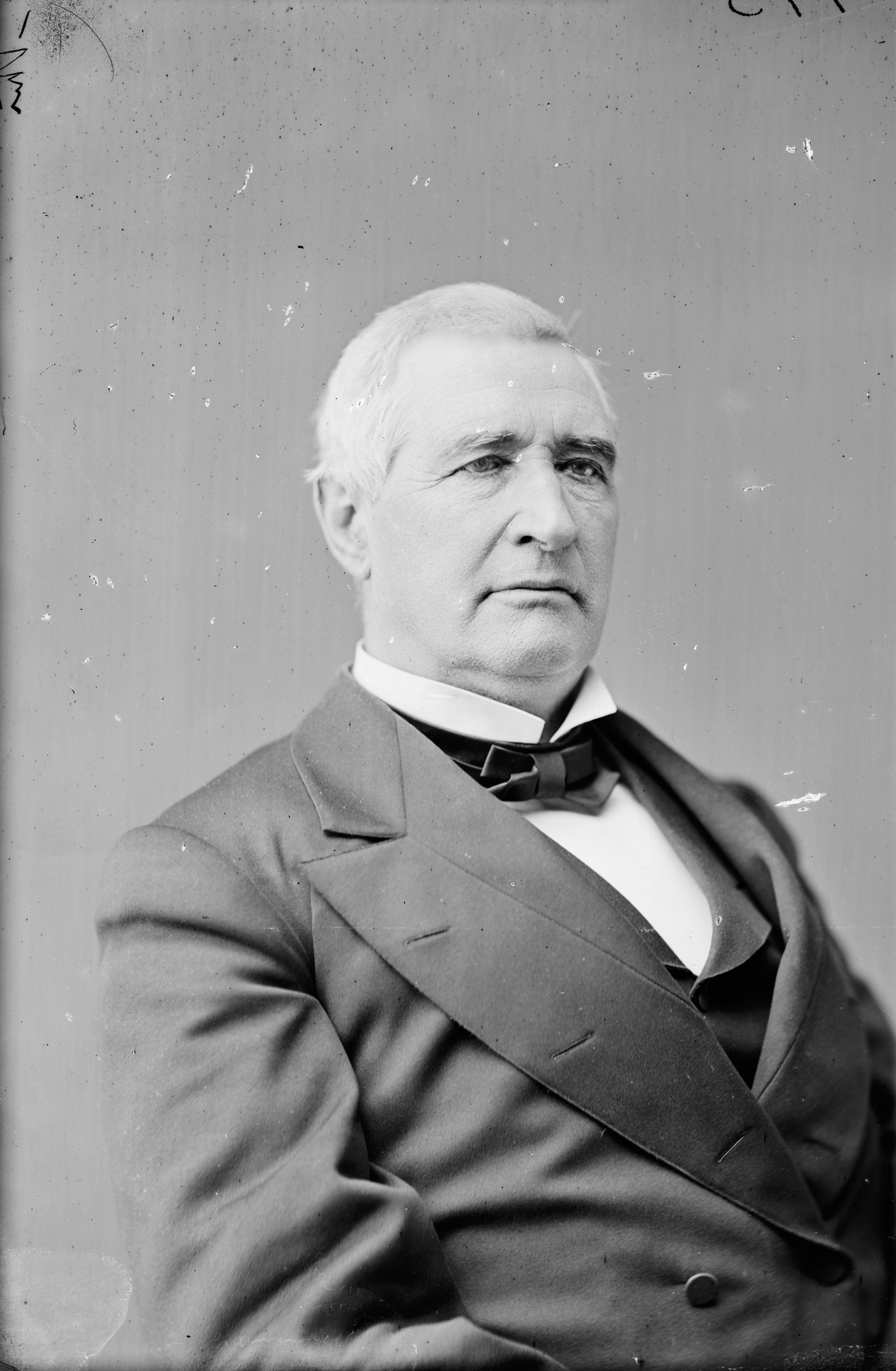 Jesse Finley (1812 - 1904) was a member of the United States House of Representatives from Florida. Library of Congress description: "Finley, Hon. Jesse Johnson of Fla. Judge of the Confederate States Court from the District of Florida in 1861. Brig Gen in Confederate Army." Library of Congress Prints and Photographs Division. Brady-Handy Photograph Collection. CALL NUMBER: LC-BH832- 29589 (This summary was created using Commons SumItUp)